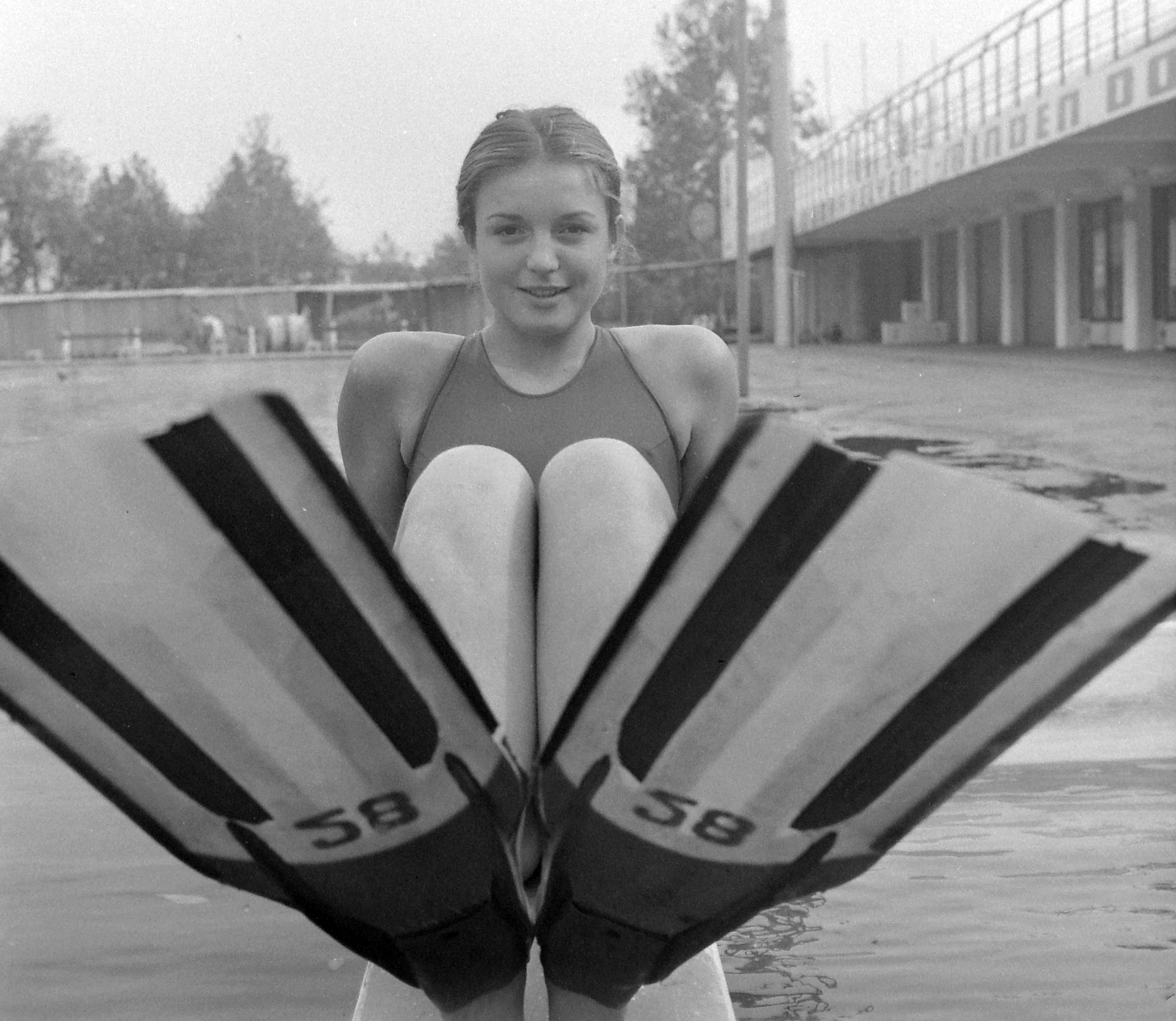 Location: Hungary, Szolnok Tags: swimming pool, smile, swimmer